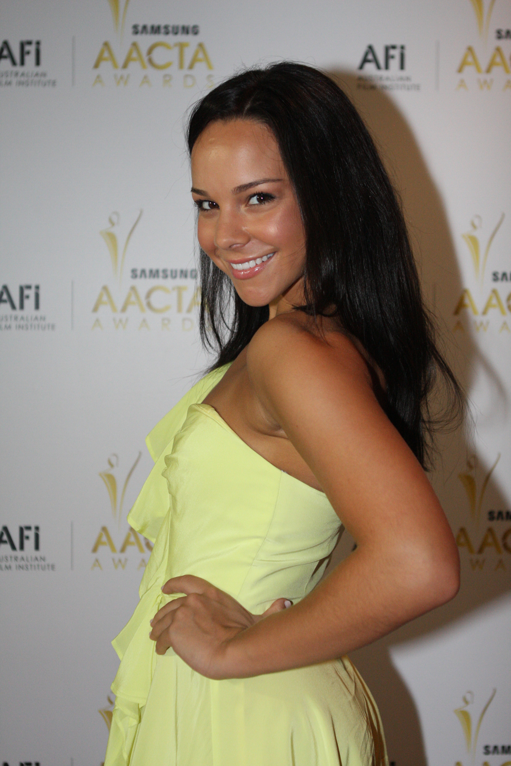 The 1st AACTA Awards were presented at the Sydney Opera House on 31 January 2012. The ceremony was preceded by a luncheon at the Westin Hotel in Sydney on 15 January 2012.